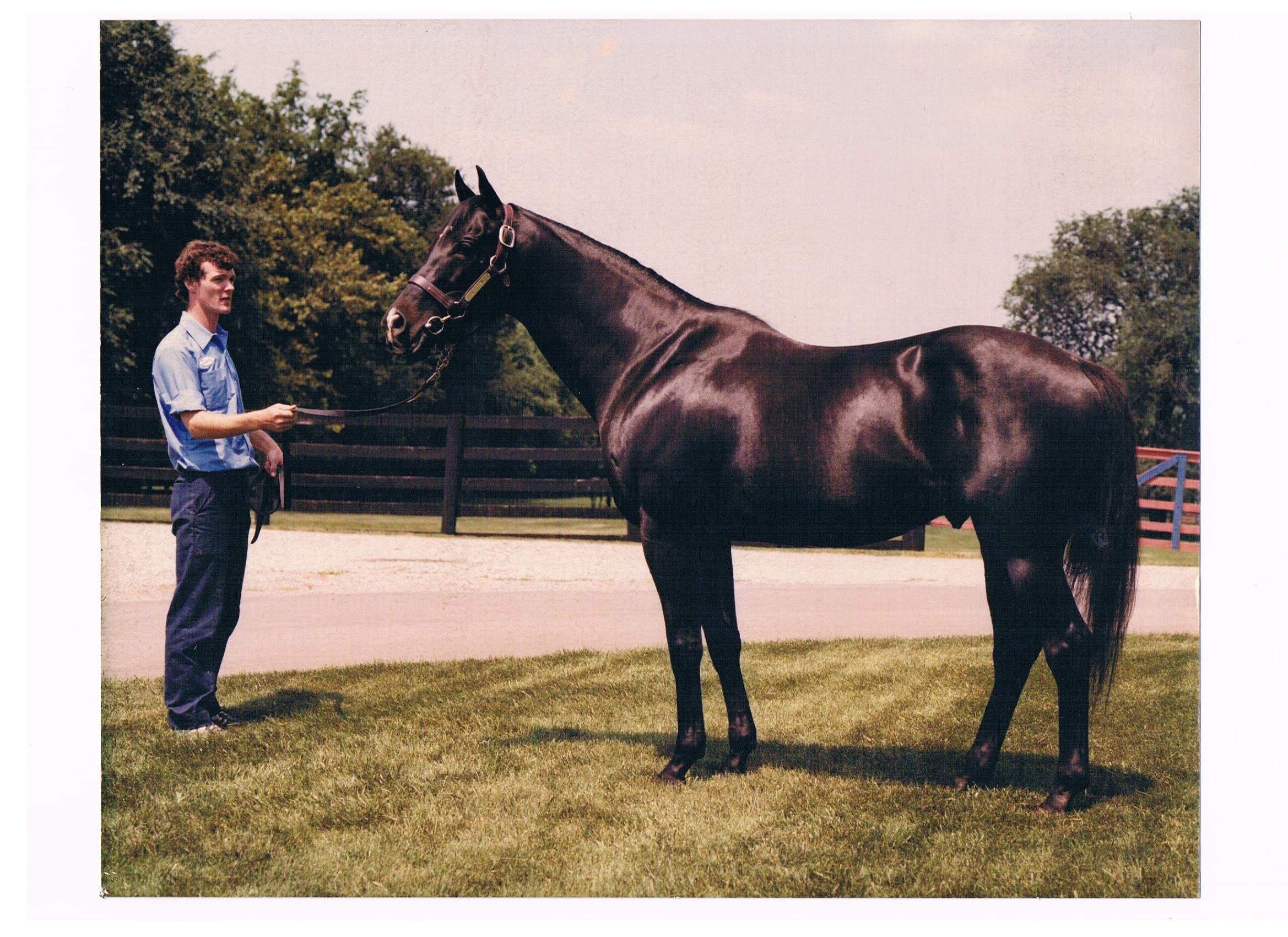 J O Tobin at Spendthrift Farm in Kentucky 1981